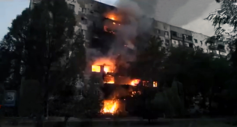 Burning residential apartment building in Shahtersk, Donetsk region, August 3, 2014.